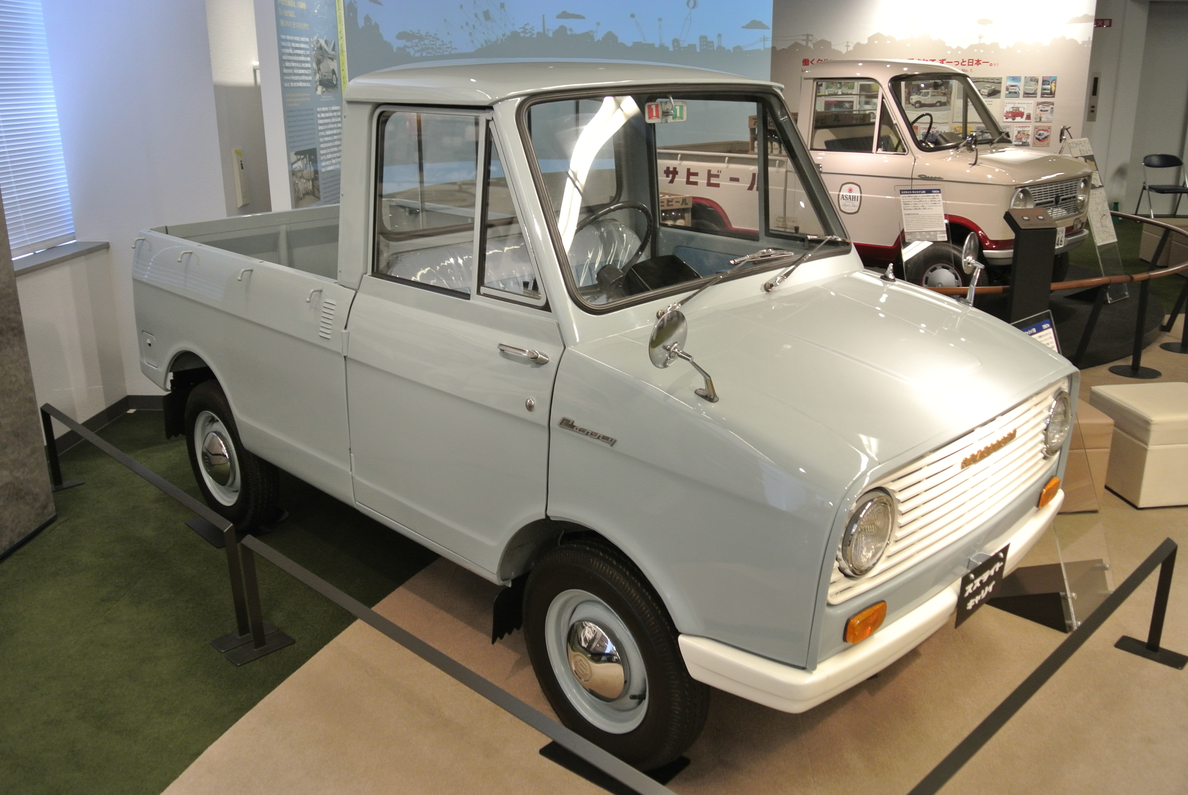 1961 Suzuki Suzulight Carry FB in the Suzuki History Museum.